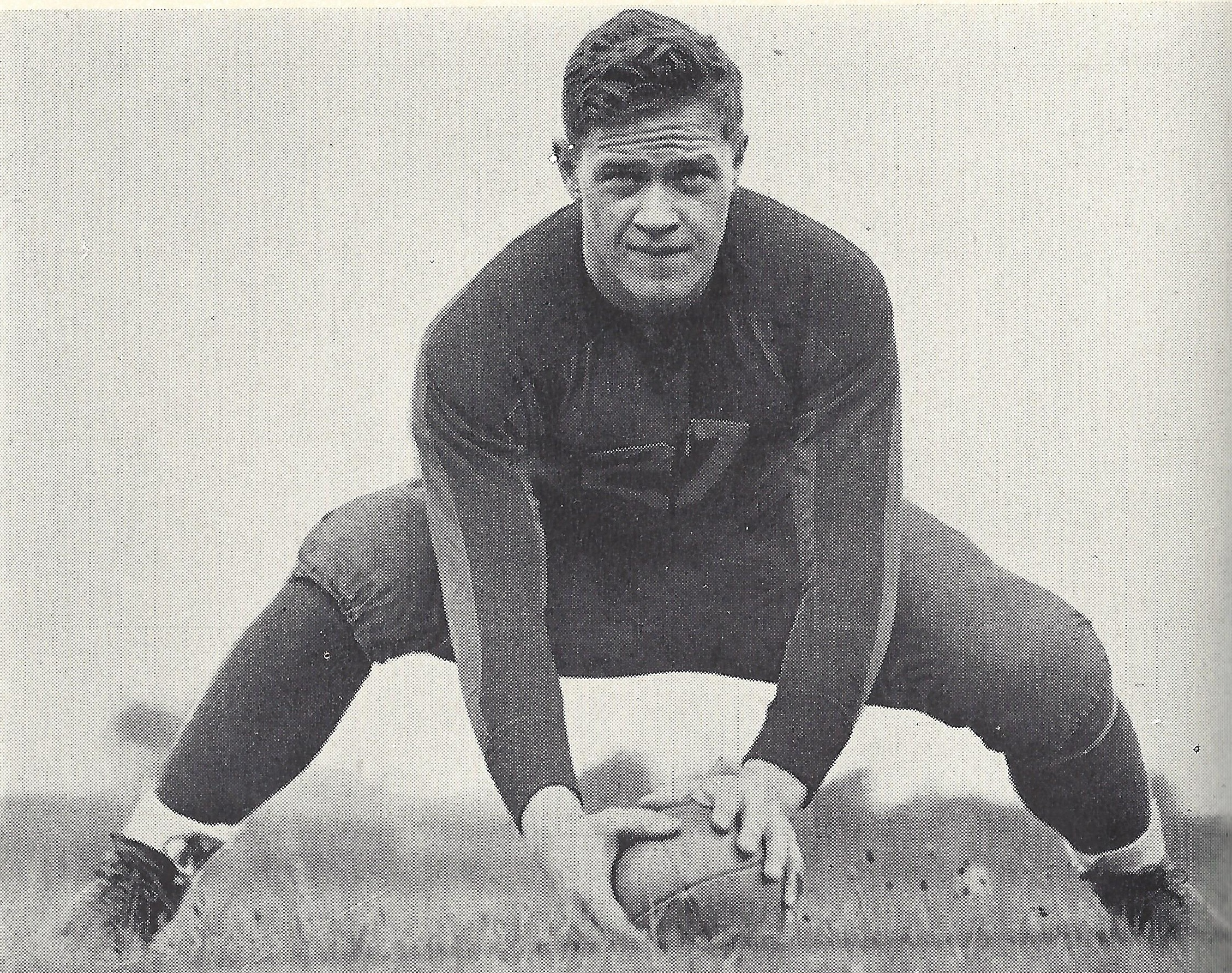 Photograph of Chuck Bernard, player on the 1932 Michigan Wolverines football team This work is in the public domain because it was published in the United States between 1923 and 1963 and although there may or may not have been a copyright notice, the copyright was not renewed. Unless its author has been dead for the required period, it is copyrighted in the countries or areas that do not apply the rule of the shorter term for US works, such as Canada (50 pma), Mainland China (50 pma, not Hong Kong or Macao), Germany (70 pma), Mexico (100 pma), Switzerland (70 pma), and other countries with individual treaties. See Commons:Hirtle chart for further explanation. This work is in the public domain in the United States because it was published in the United States between 1923 and 1977 without a copyright notice. See this page for further explanation. Note that it may still be copyrighted in jurisdictions that do not apply the rule of the shorter term for US works (depending on the date of the author's death), such as Canada (50 p.m.a.), Mainland China (50 p.m.a., not Hong Kong or Macao), Germany (70 p.m.a.), Mexico (100 p.m.a.), Switzerland (70 p.m.a.), and other countries with individual treaties.